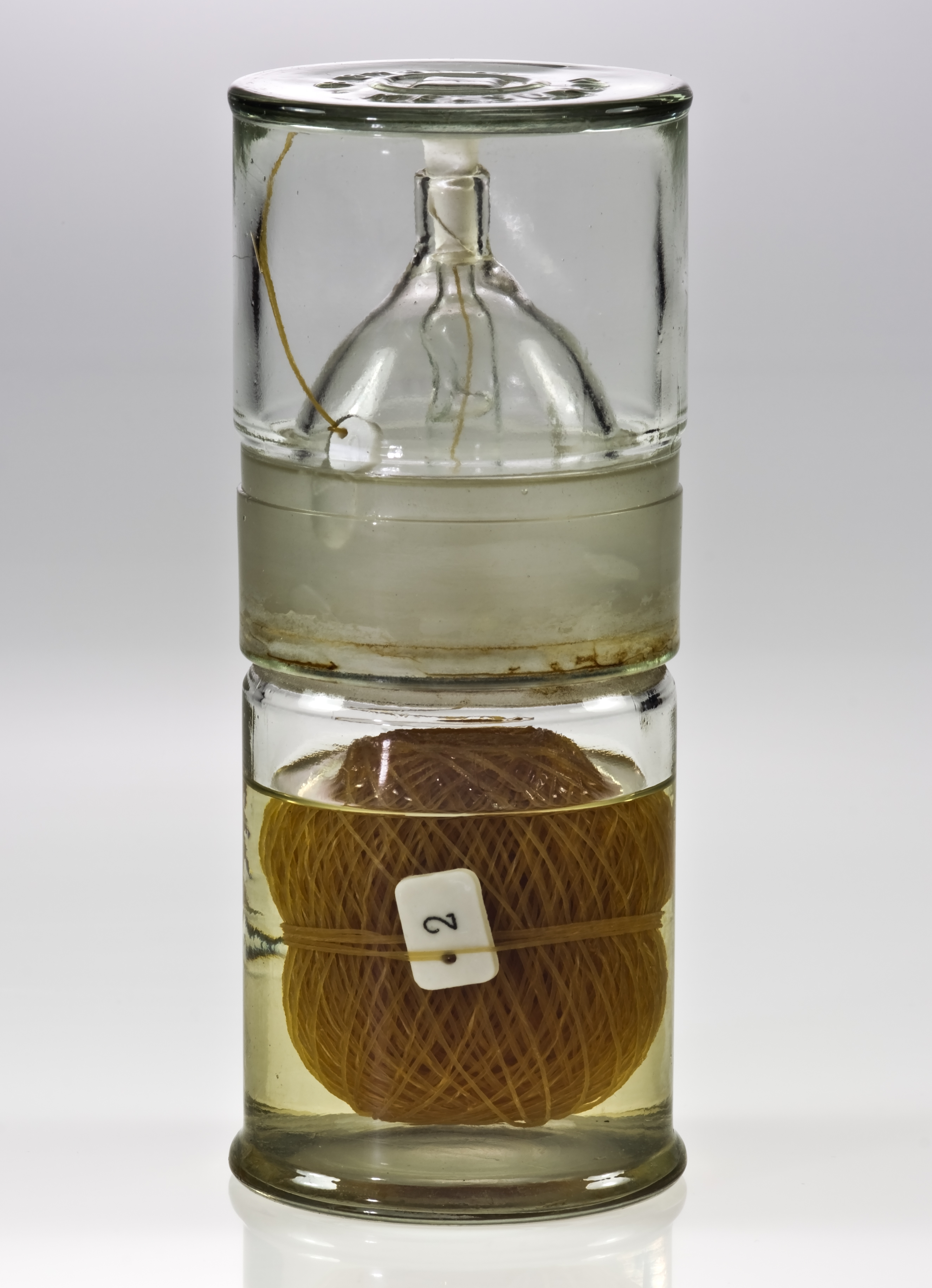 Surgical catgut thread in a glass dispenser, ca. half of the twentieth century.